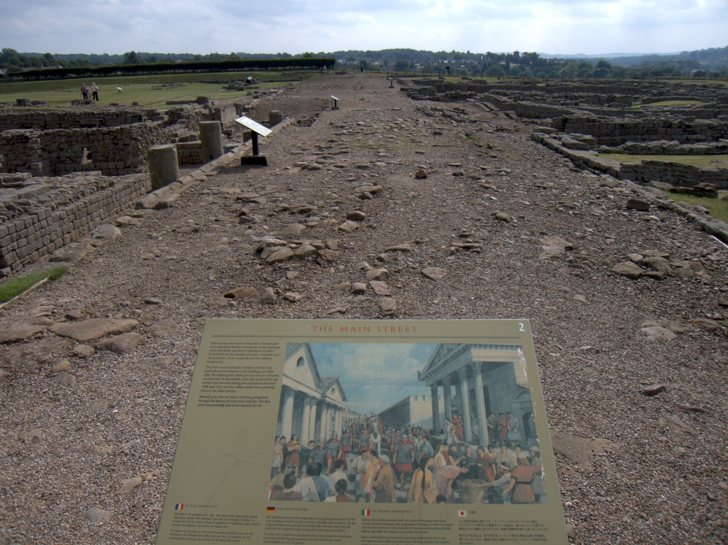 Scene of the Roman road known as the "Stangate", located within the "Corbridge Roman Site", Corbridge, UK. Taken by Dennis Moynihan, August, 2005.